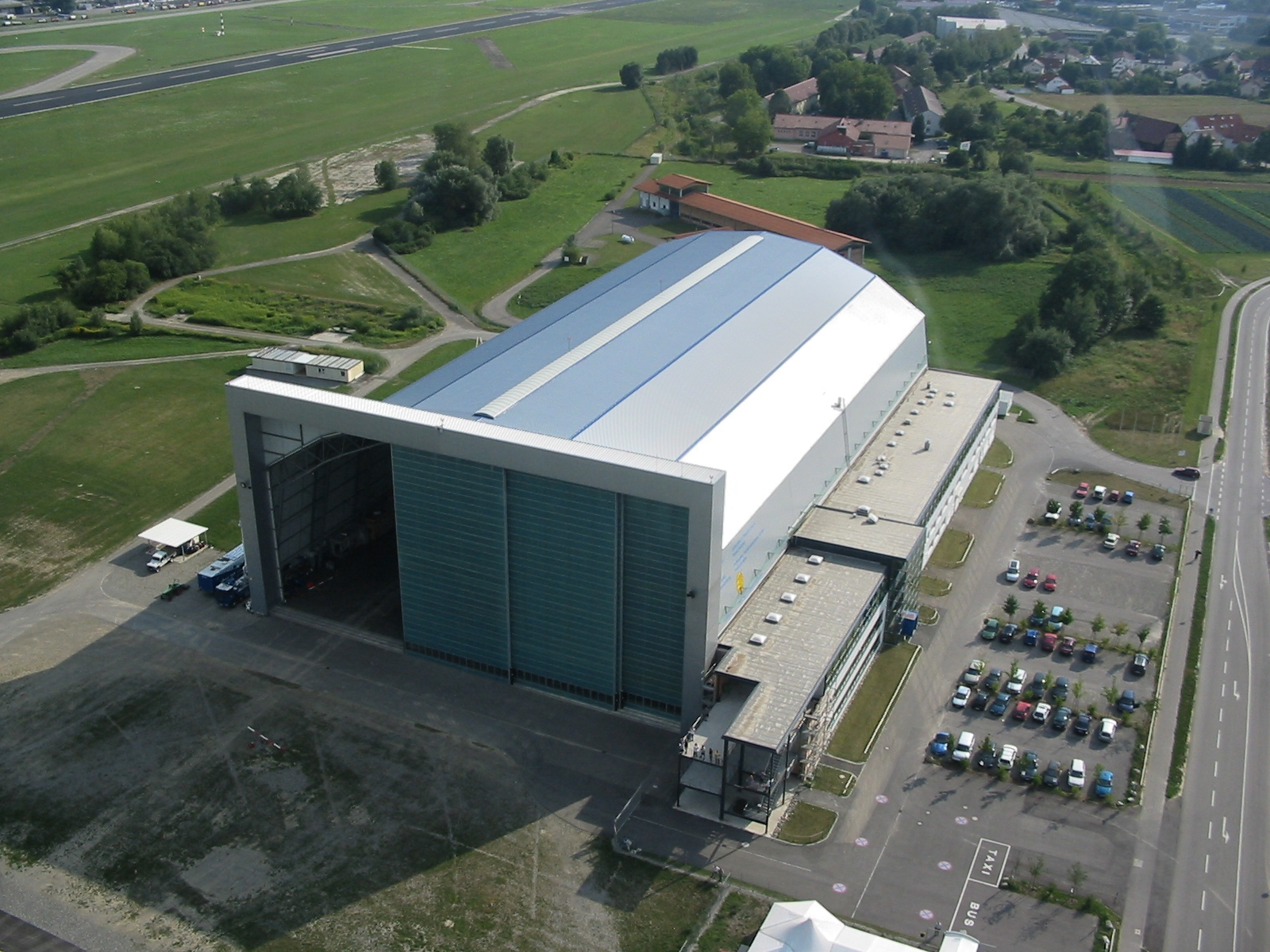 Germany, Baden-Württemberg, impressions of a flight with airship D-LZZR